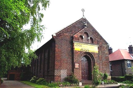 Churwell, St Brigid's R.C. Church. This Church is situated on the western side of the A643. It occupies a central position on the western edge of the O/S grid which it occupies.